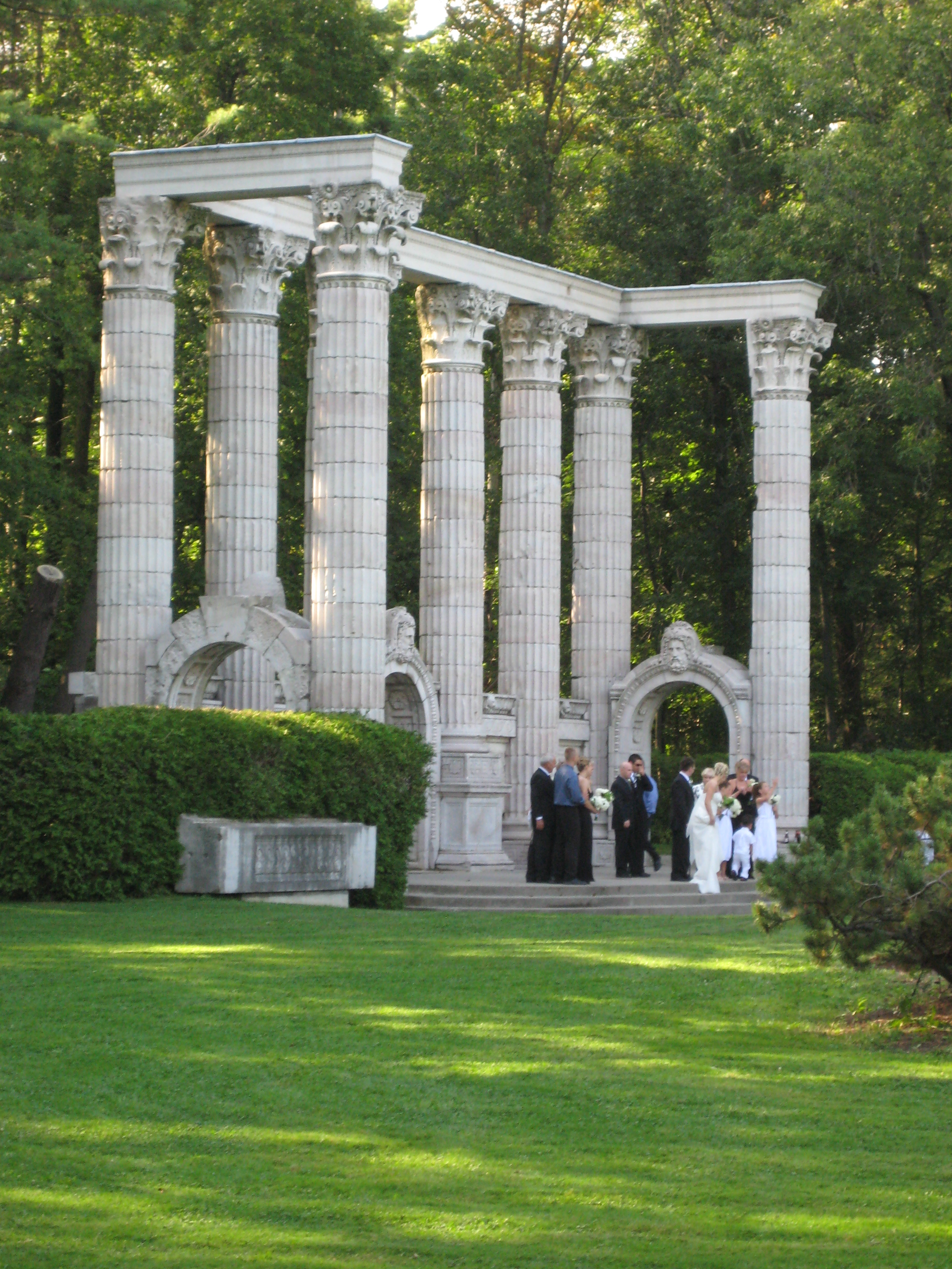 ruins in Guildwood Park